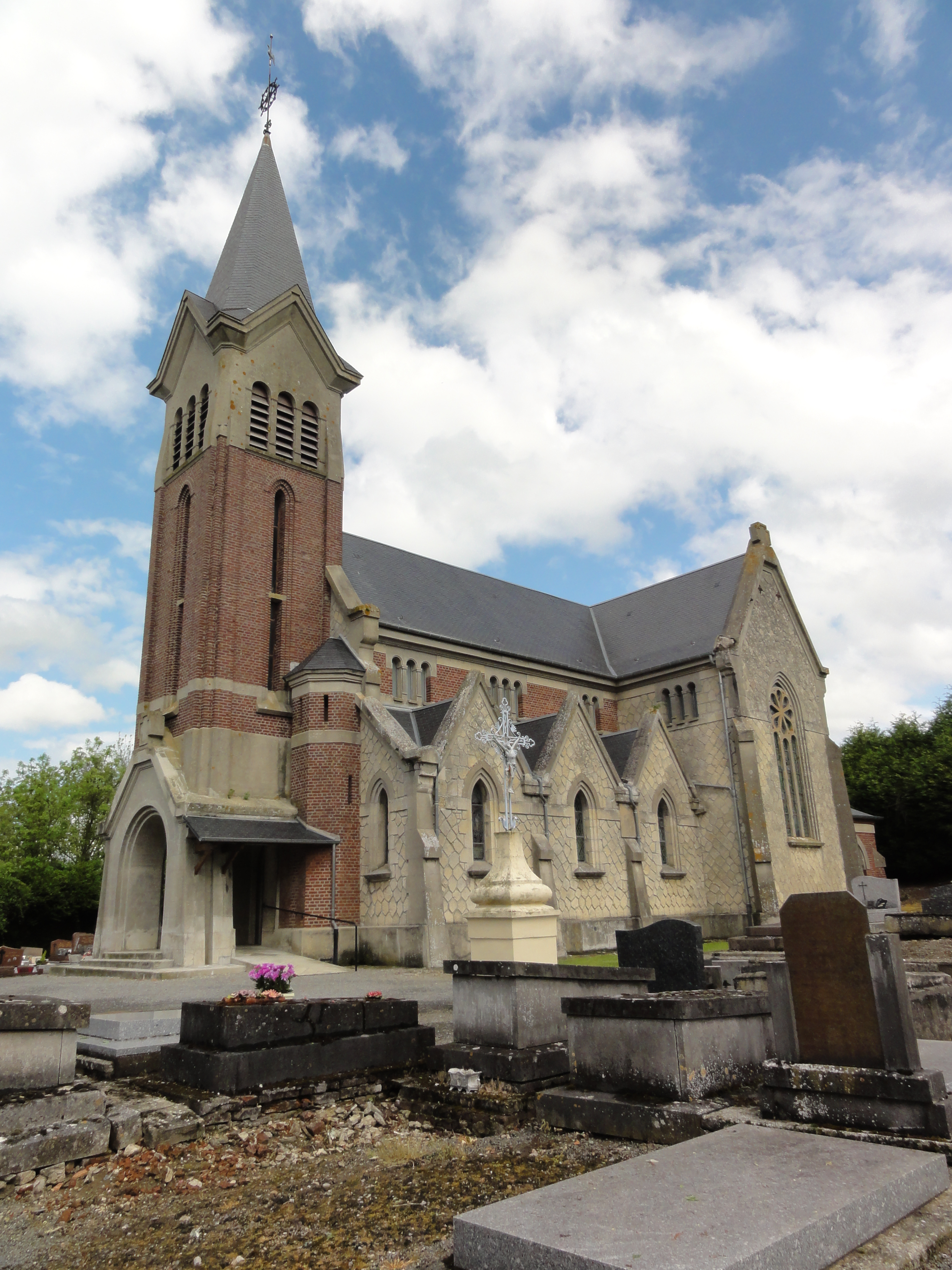 Servais (Aisne) église